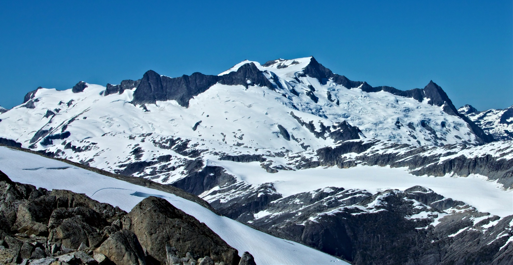 Looking through to the ruggest and heavily glaciate Mt Albert to the southwest of us. Mount Albert in BC, Canada